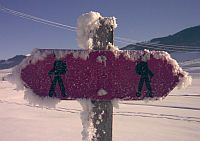 Winter hiking